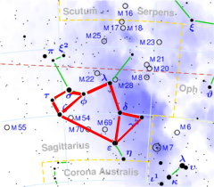 Sagittarius teapot asterism